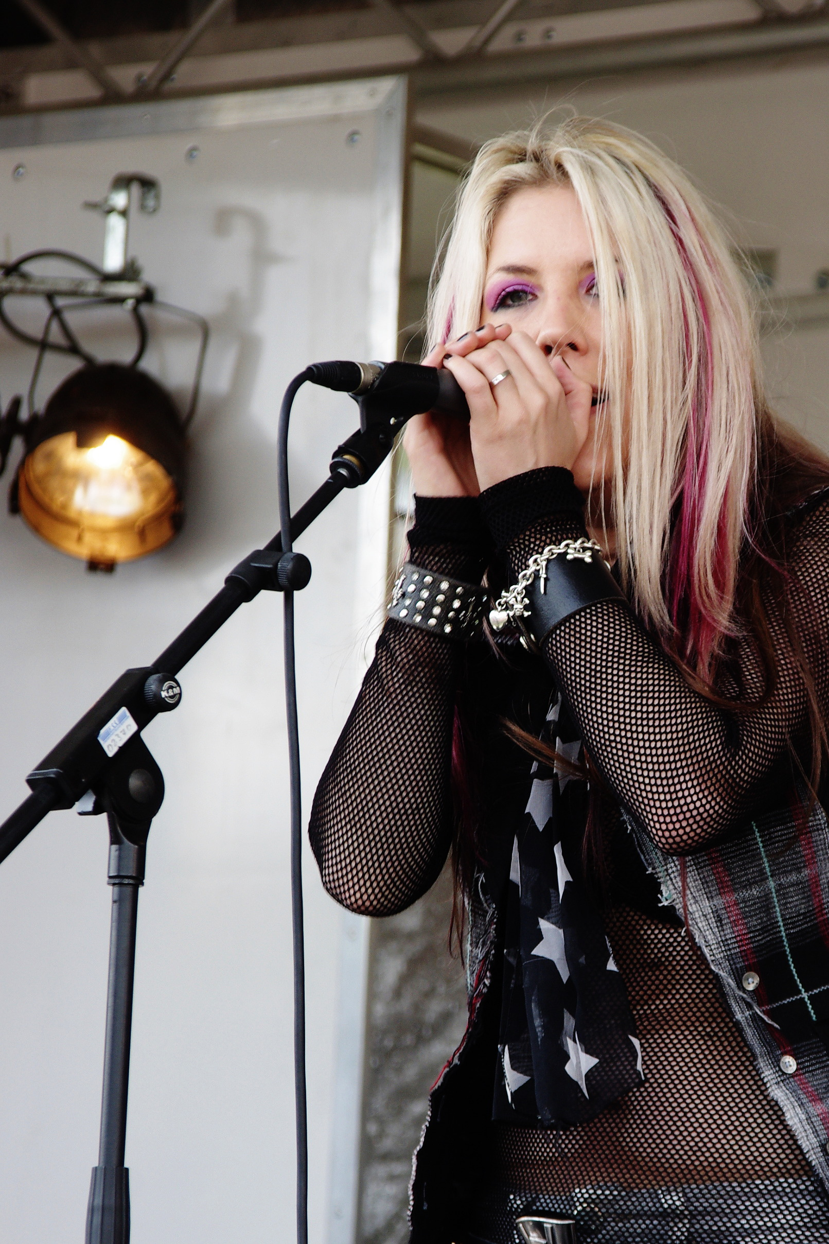 Mel Sanson of Kenelis performs on the main stage at Nottingham Pride 2010.